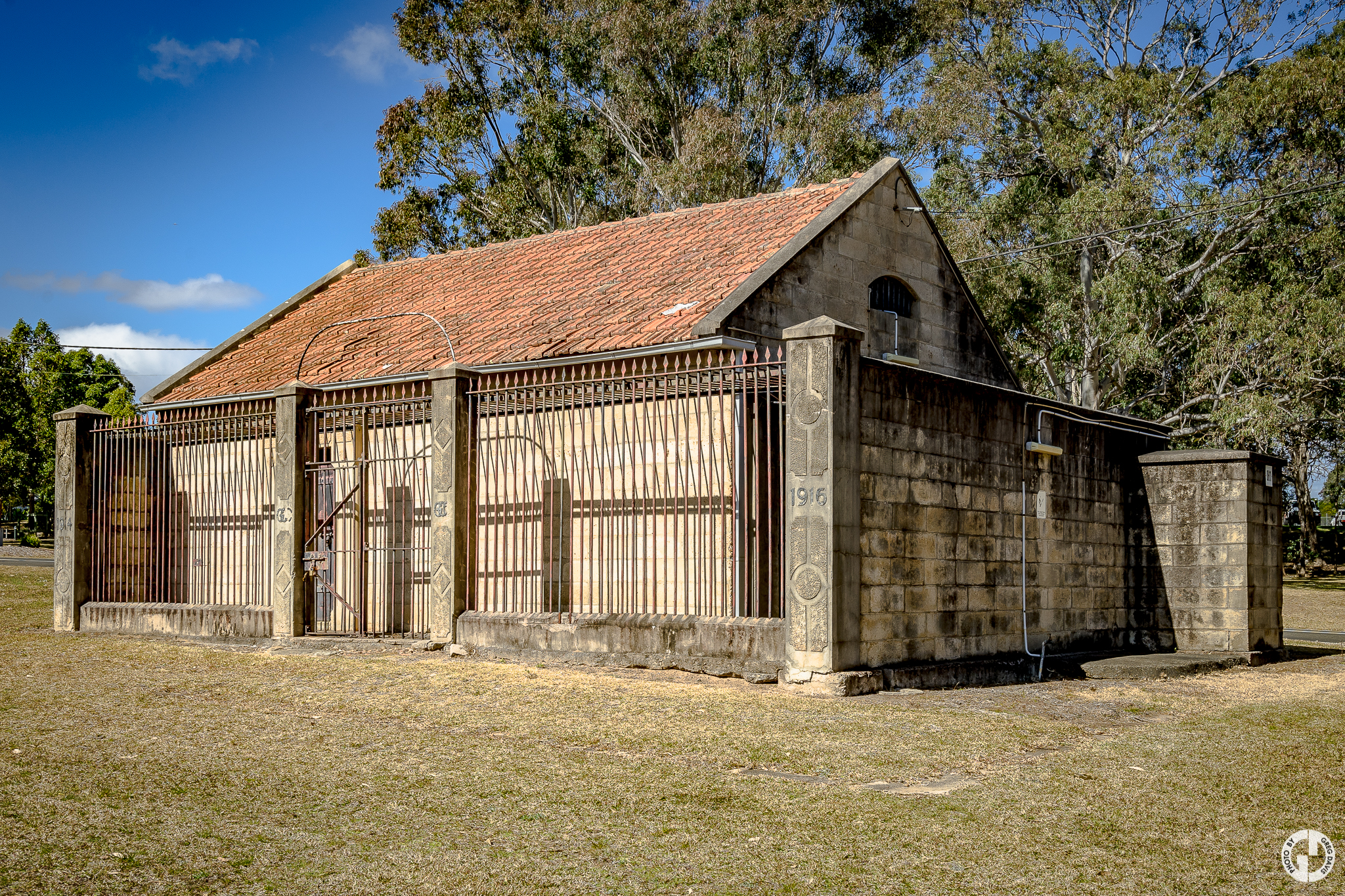 The gaol building was used for the detention of troublesome internees during WW1. The cells still have graffiti dating from this period. The building is constructed of concrete block textured and coloured to resemble sandstone with a terracotta tiled roof. A small "exercise yard" is provided in front of the north and west facades and is enclosed by a block wall and iron “cage”. Following the internees leaving Holdsworthy, the building was used as a Powder Magazine and general storage shed. The solid steel doors are believed to be from that time.